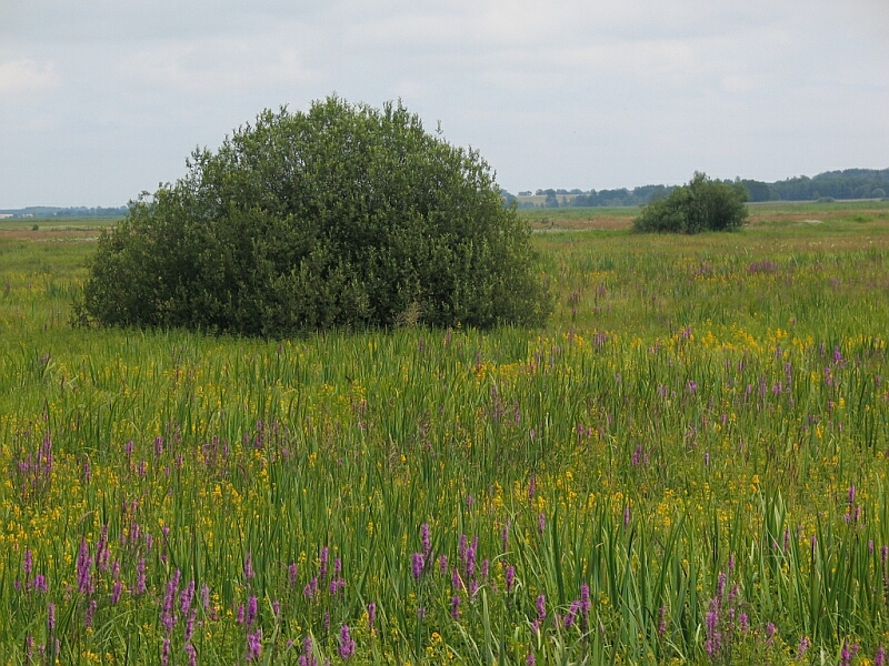 Biebrza River in Poland